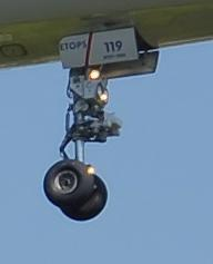 This is a cropped image of a wheel bay from a Boeing 757 of Continental Airlines. The wheel door show the text 'ETOPS', which stands for 'Extended-range Twin-engine Operational Performance Standards'.